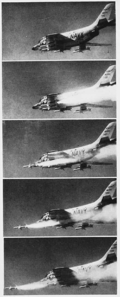 A series of pictures showing the launching sequence of a AAM-N-6 Sparrow III missile from a McDonnell F3H-2N Demon (BuNo 137010) at the Point Mugu Pacific Missile Test Range, about 1958.